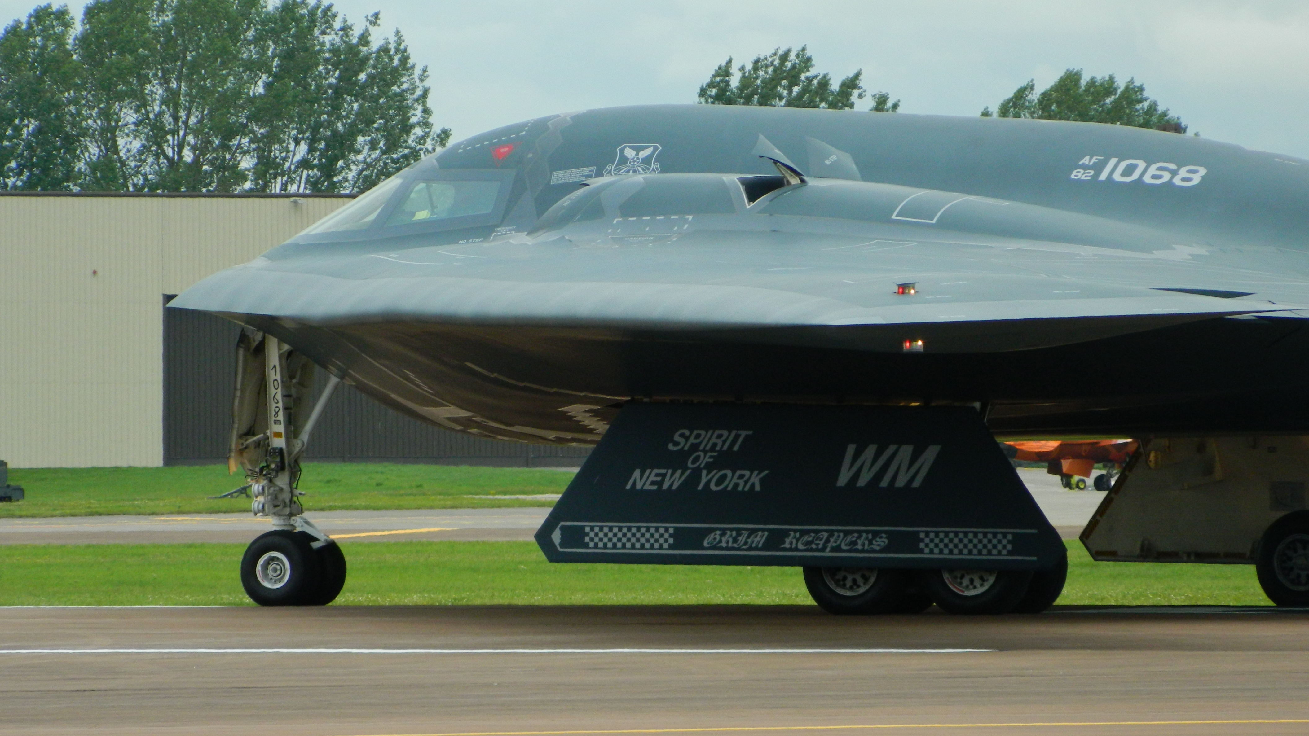 "82-1068 Spirit of New York" a B-2A Spirit of the United States Air Force at the Royal International Air Tattoo, RAF Fairford, England